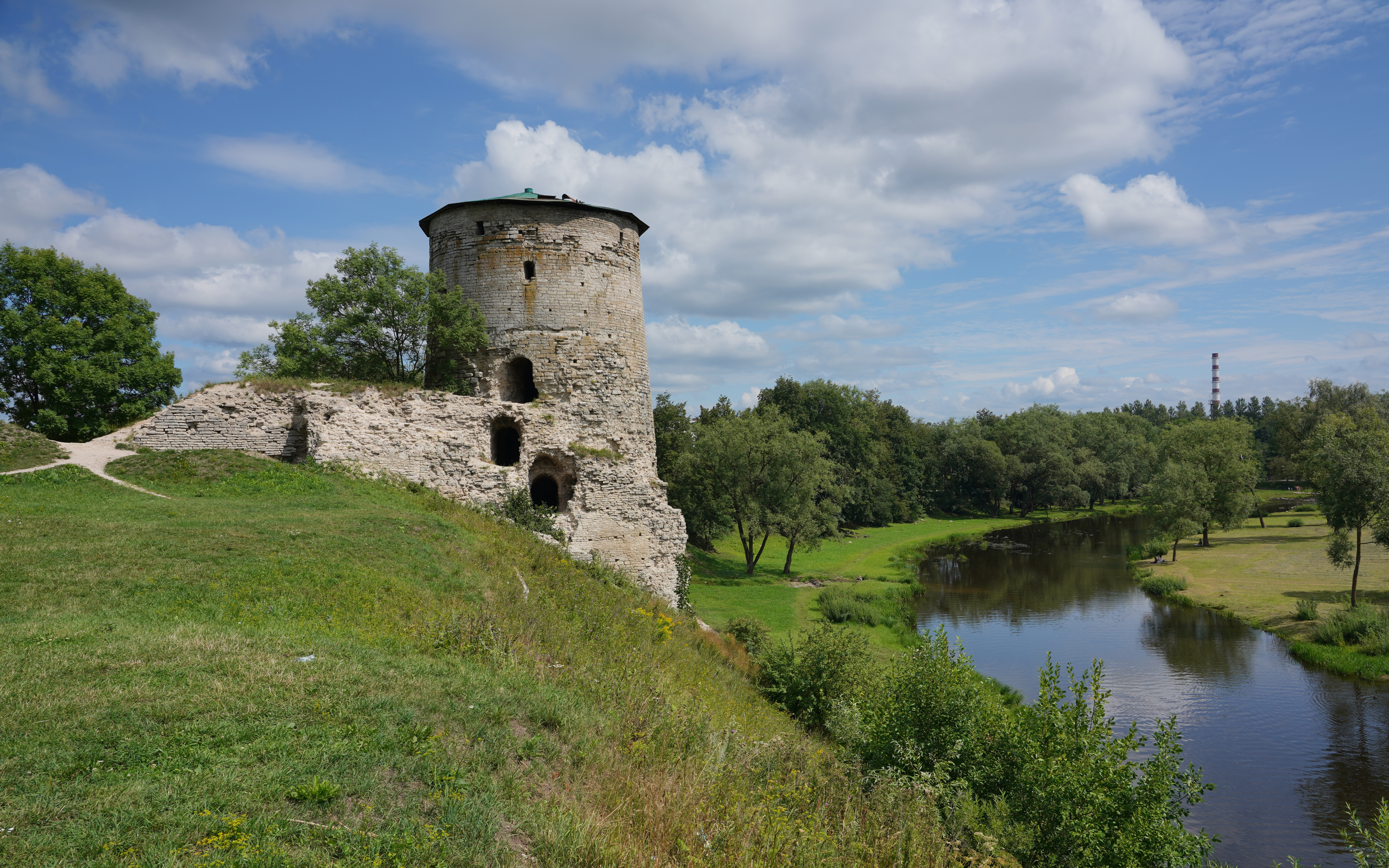 Gremyachaya Tower and Pskova River in Pskov, Russia